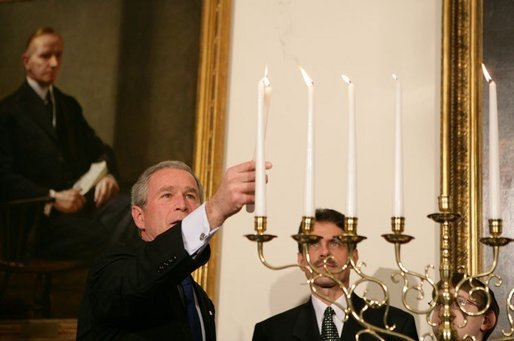 President George W. Bush participates in the Menorah lighting at the White House with Rabbi Joshua Skoff (Park Avenue Synagogue in Cleveland) and members of the Skoff family, Tuesday, Dec. 6, 2005, prior to the annual White House Hanukkah reception.